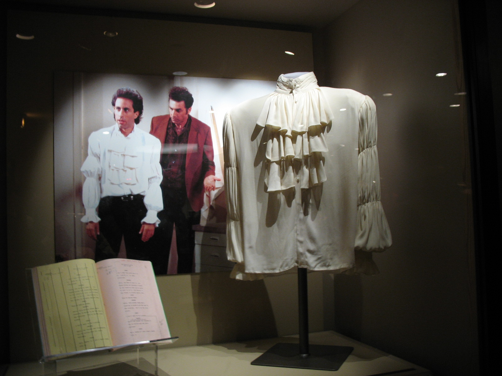 The Puffy Shirt from the homonymous episode of Seinfeld displayed at the National Museum of American History (Smithsonian Institution).